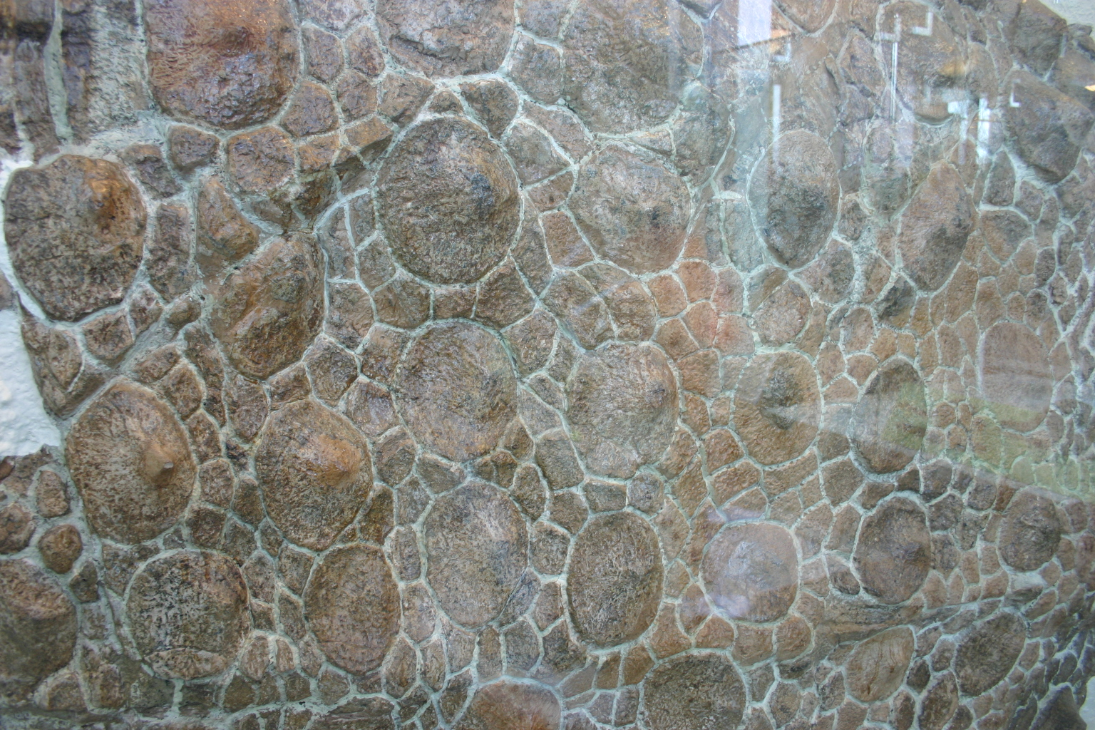 shielded reptile Visit my blog at